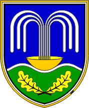 COA of Dobrna